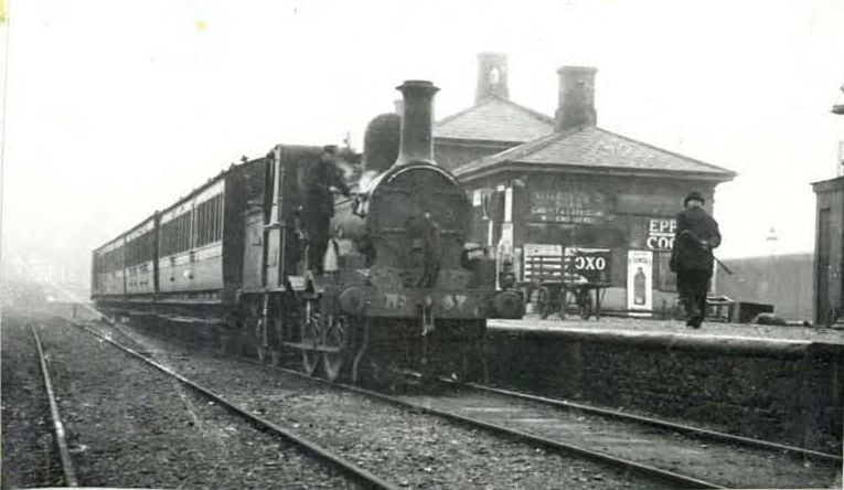 GS&WR 0-4-4T at Youghal railway station, County Cork, Ireland in 1902